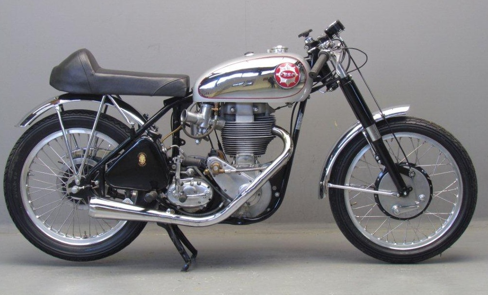 1956 BSA DB34 Gold Star Daytona racer